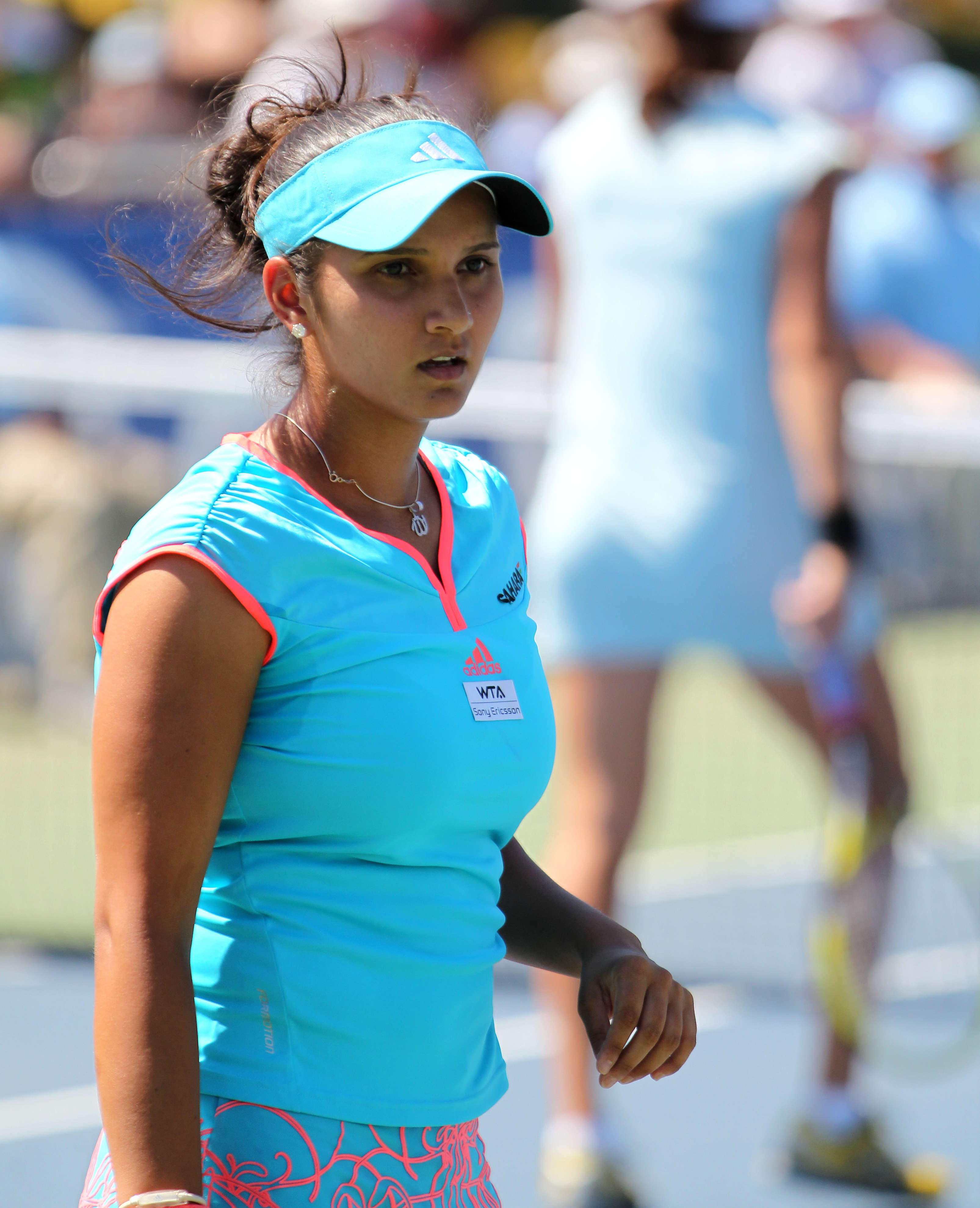 Citi Open Tennis Finals July 31, 2011